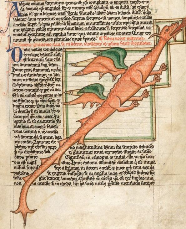 Dragon – Bestiary Harley MS 3244